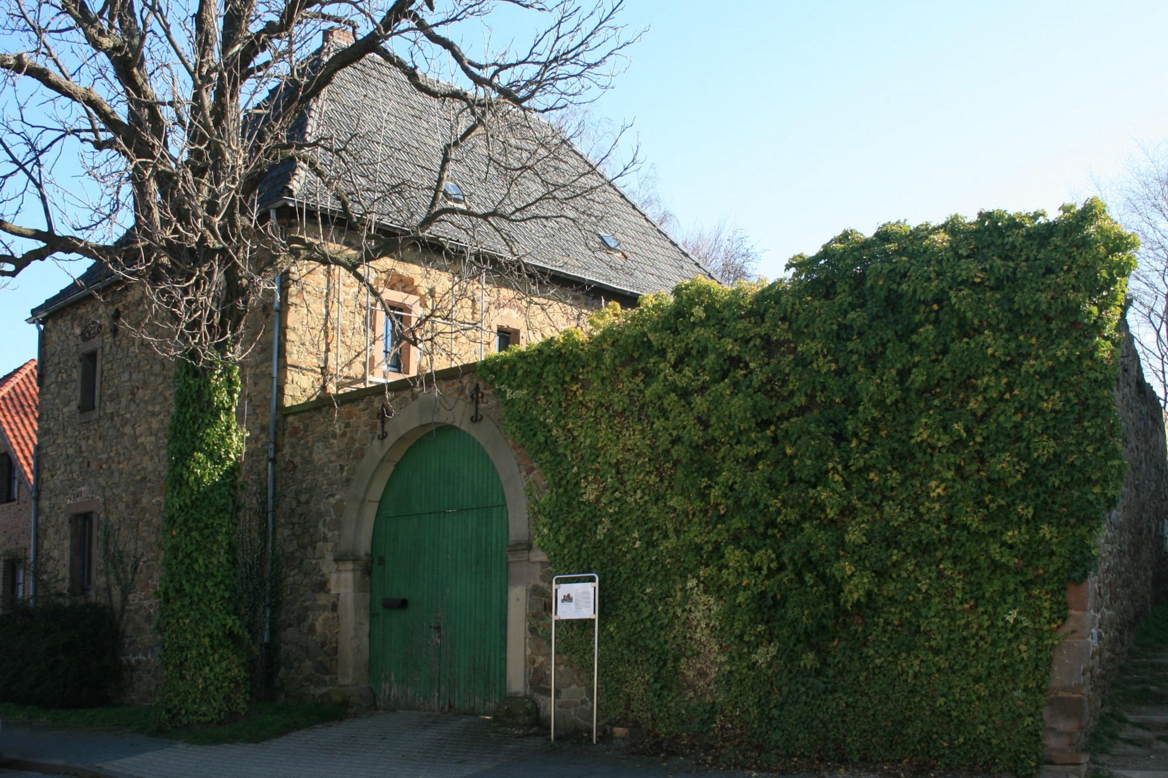 Cultural heritage monument No. 22 in Langerwehe